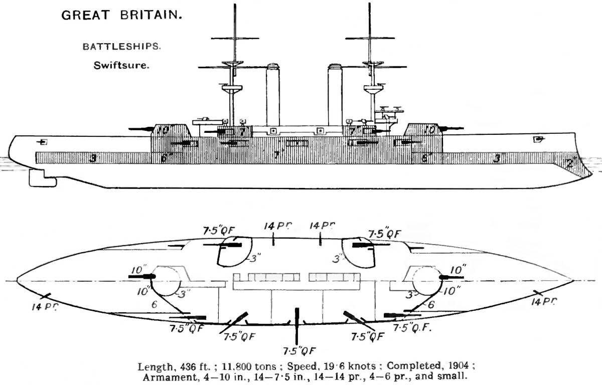 Right elevation and deck plan of British Swiftsure class battleship. Numbers on top diagram show armour thickness (shaded areas) in inches. Numbers on bottom diagram show size of guns in inches.